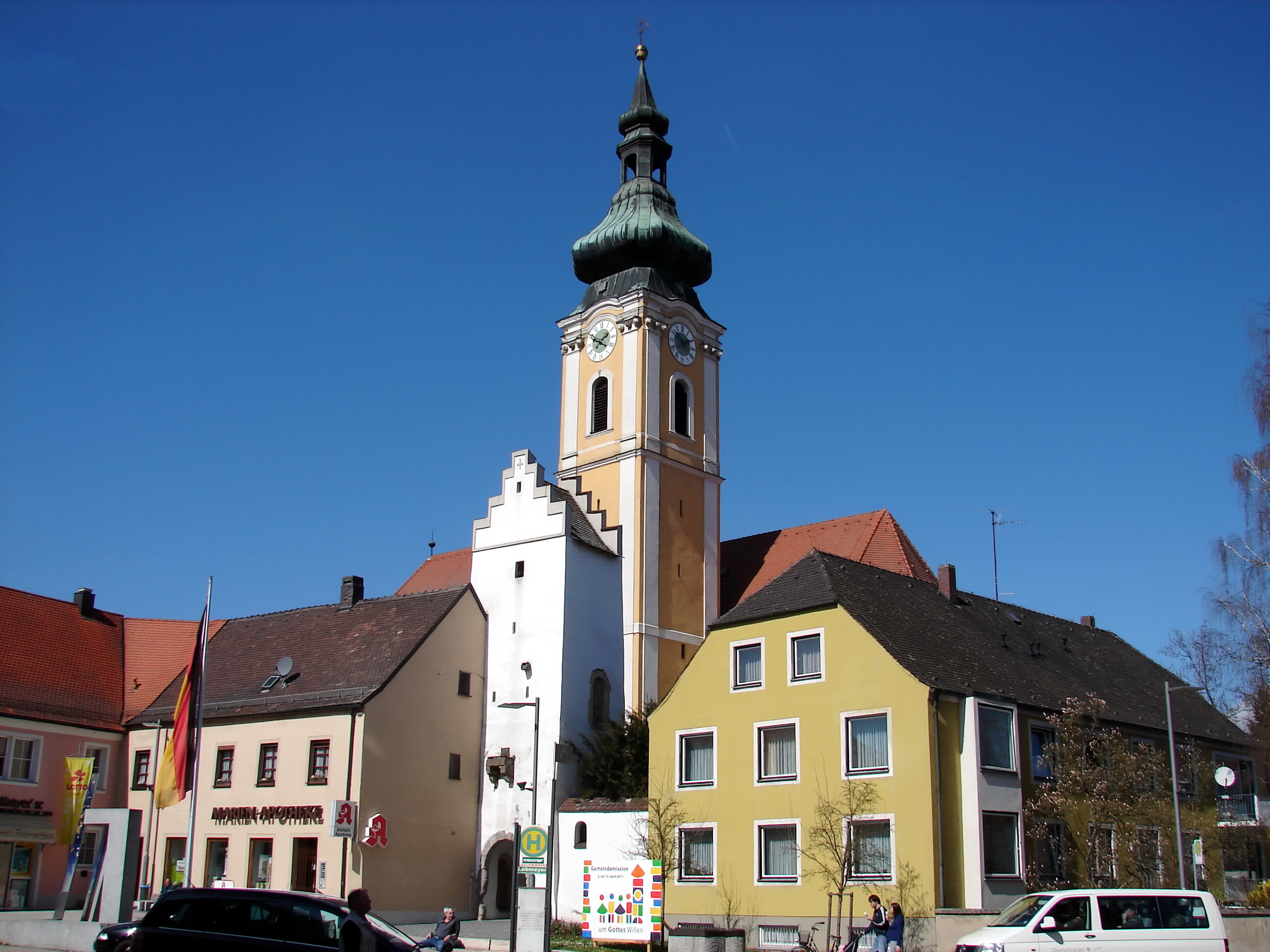 Nittenau ist eine Stadt im Oberpfälzer Landkreis Schwandorf und liegt am nördlichsten Punkt des Flusses Regen in einer breiten Talniederung.